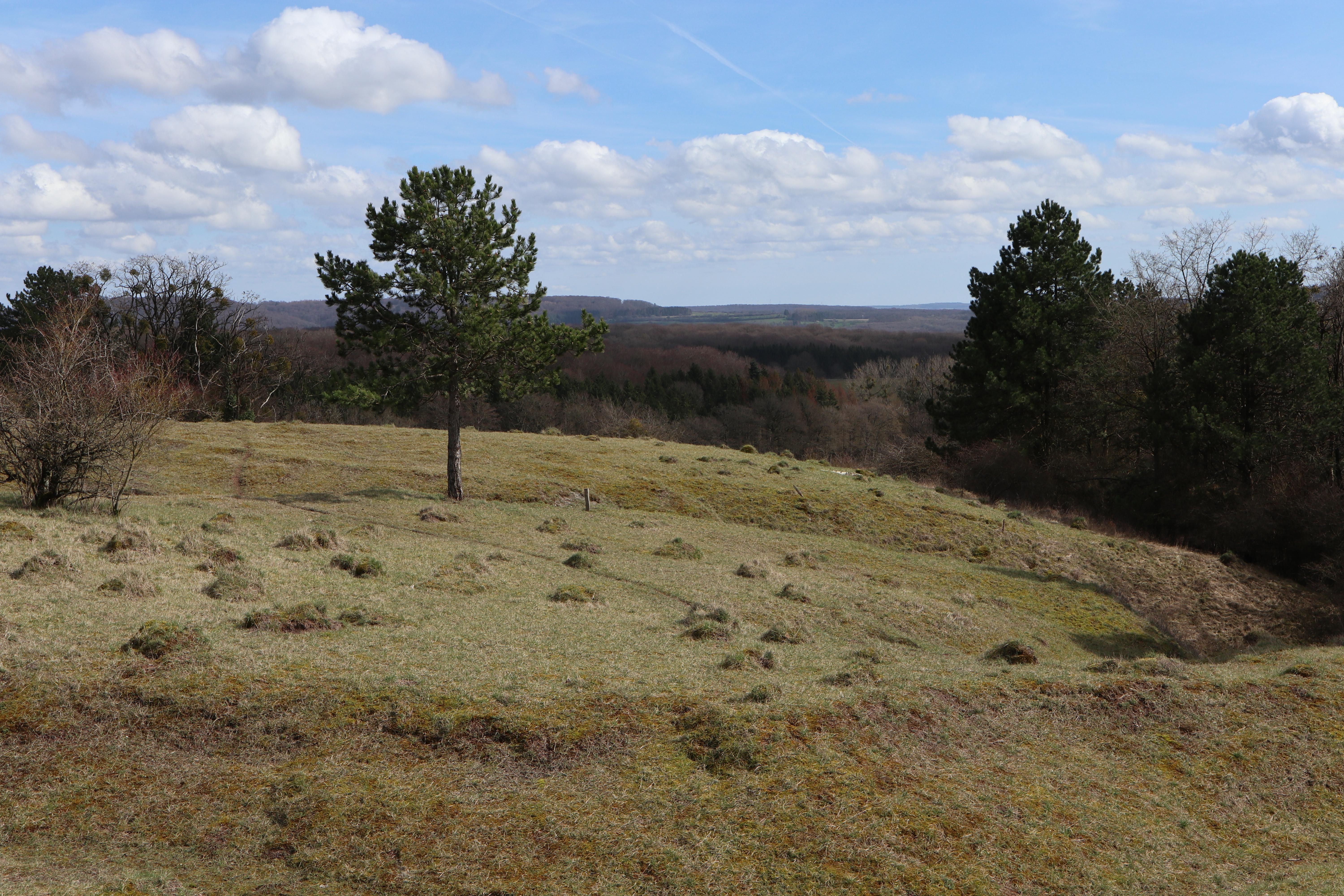 Dry grassland in Aarnescht nature reserve in Niederanven